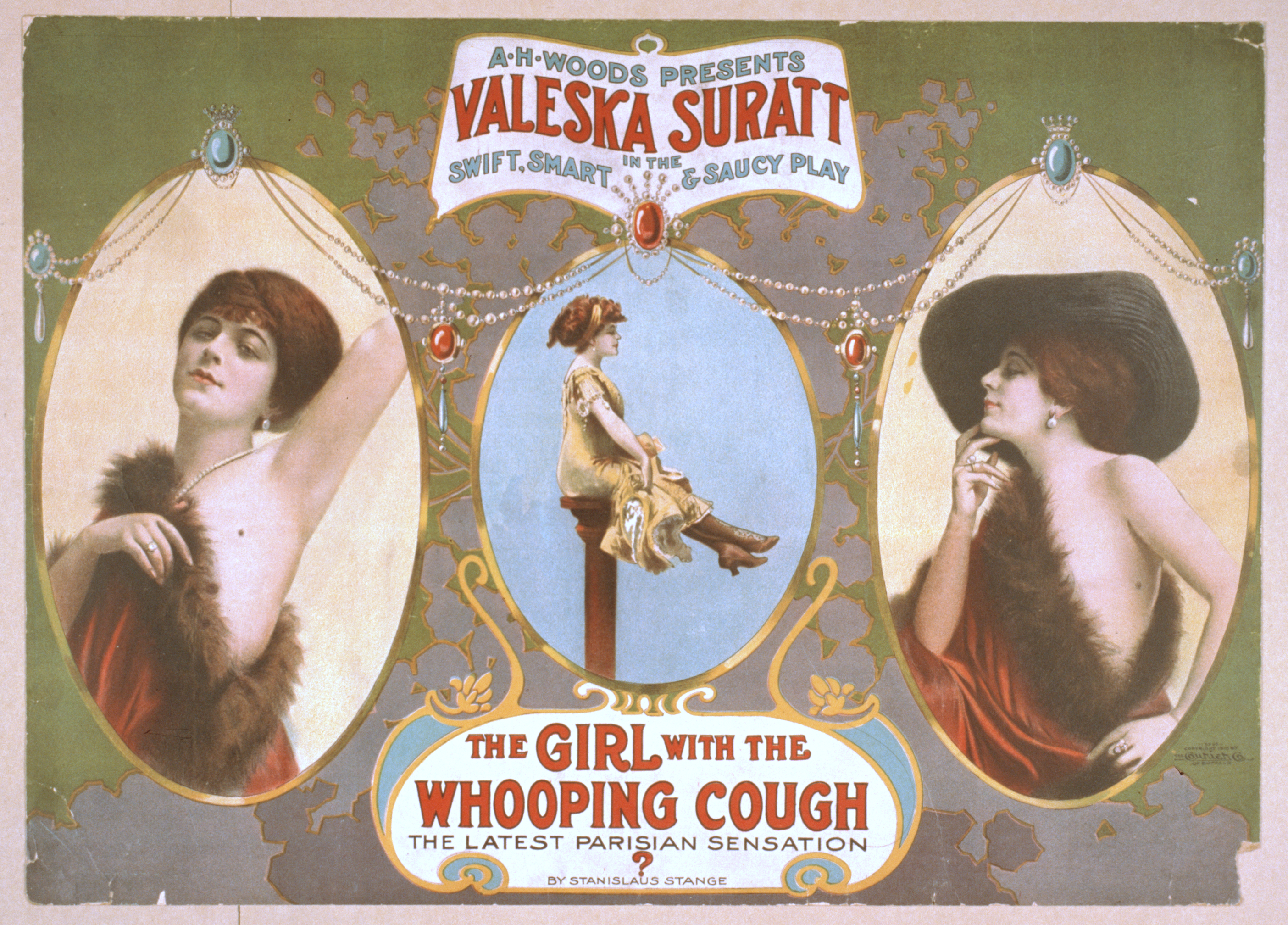 Poster for 1910 Broadway play The Girl with the Whooping Cough, produced by A.H. Woods, written by Stanislaus Stange, starring Valeska Surratt